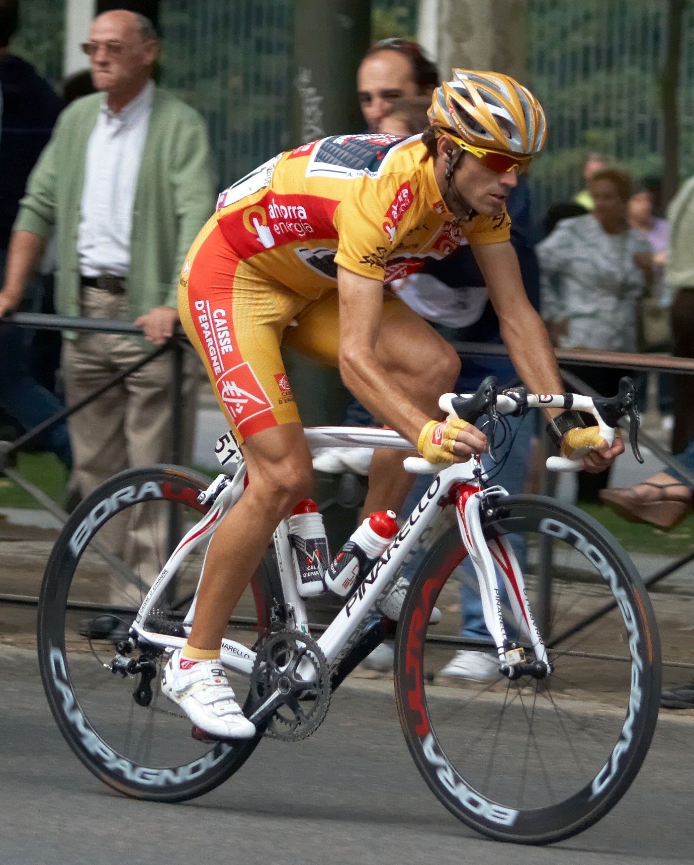 Alejandro Valverde (51/ESP), 2009 Vuelta a España, Madrid, Spain. Cropped